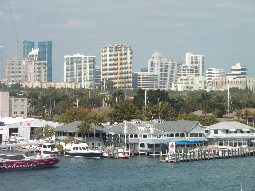 This image was taken from the 17th Street Bridge over the Intracoastal. The photo was taken from the south east side of downtown. As a resident of Fort Lauderdale, I think this photo does a wonderful job of capturing the tropical and metropolitan atmosphere of the city.